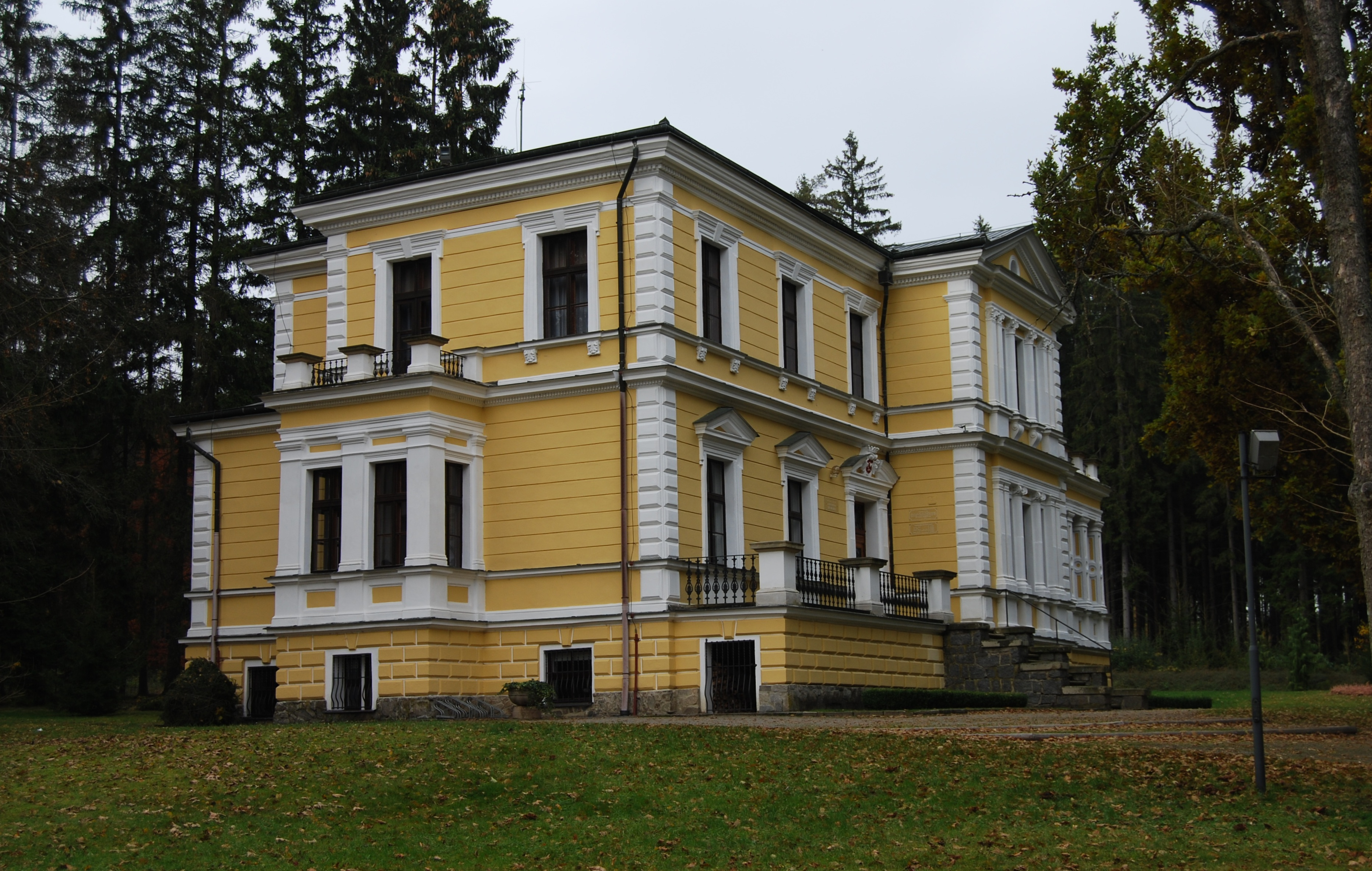 Monument of Antonín Dvořák in Vysoká u Příbrami in Příbram District, Czech Republic. Palace